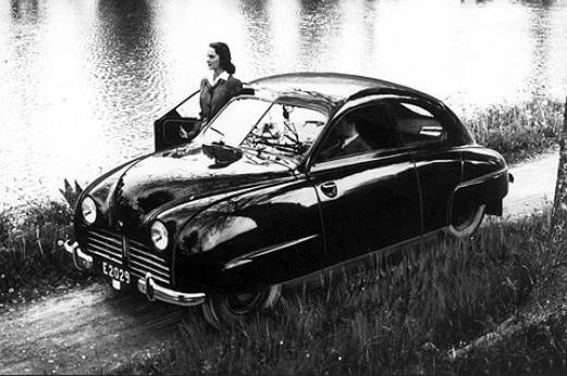 Saab 92, 1947.